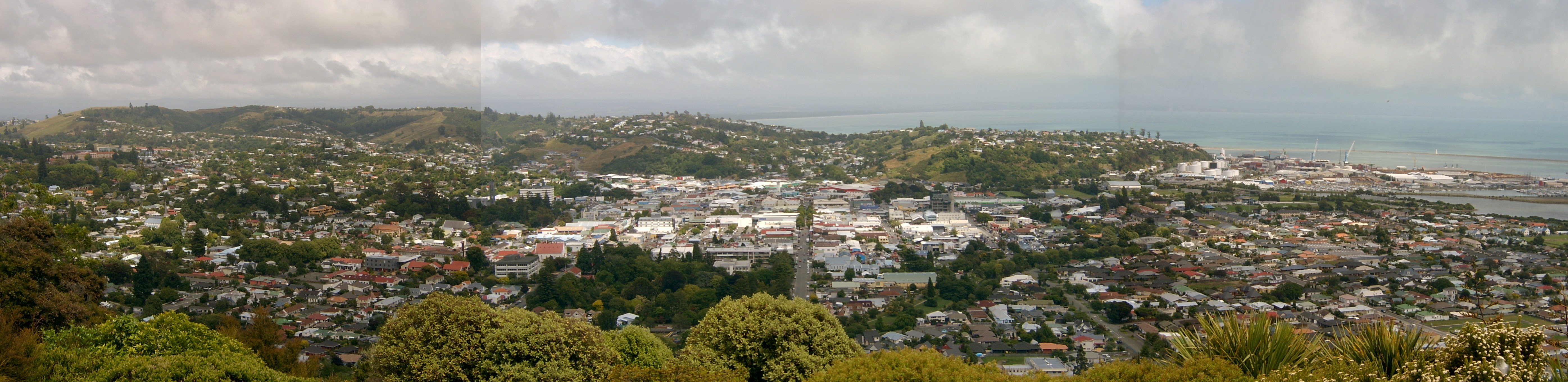 A panorama of Nelson City from Centre Of New Zealand monument; three digital photographs stitched together, taken by S.D. Currie, December 2004.